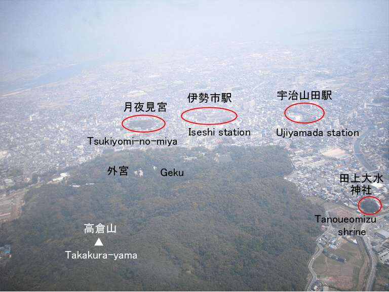 Mt. Takakurayama at Sanctuary of Toyoukedaijingu (Geku) at Ise city Mie Prf. Japan.